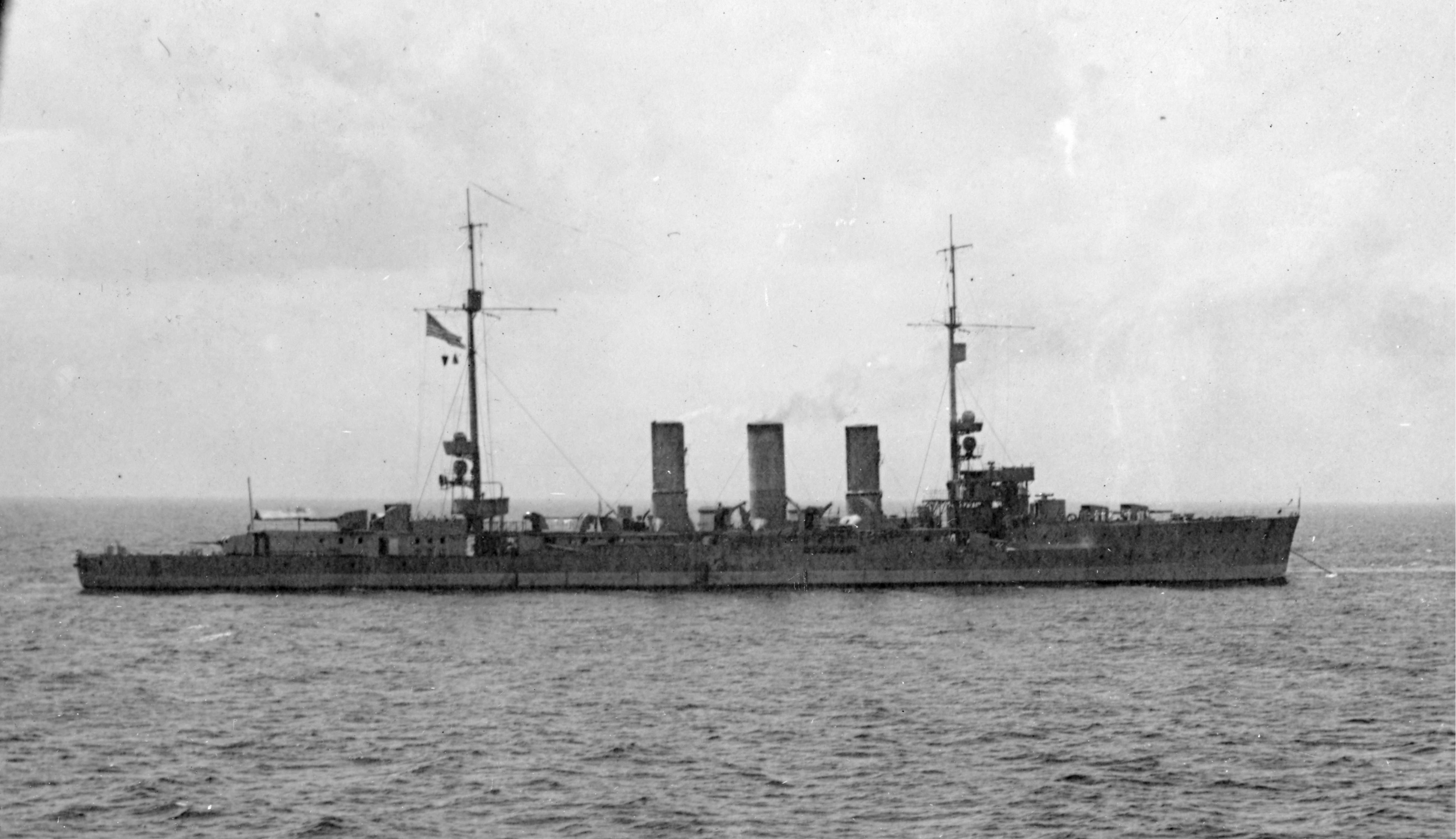 "German Cruiser FRANKFORT". The SMS Frankfurt was ceded to the USA after WW I and is seen here under US flag prior to being used as target. This version has been cropped by uploader.